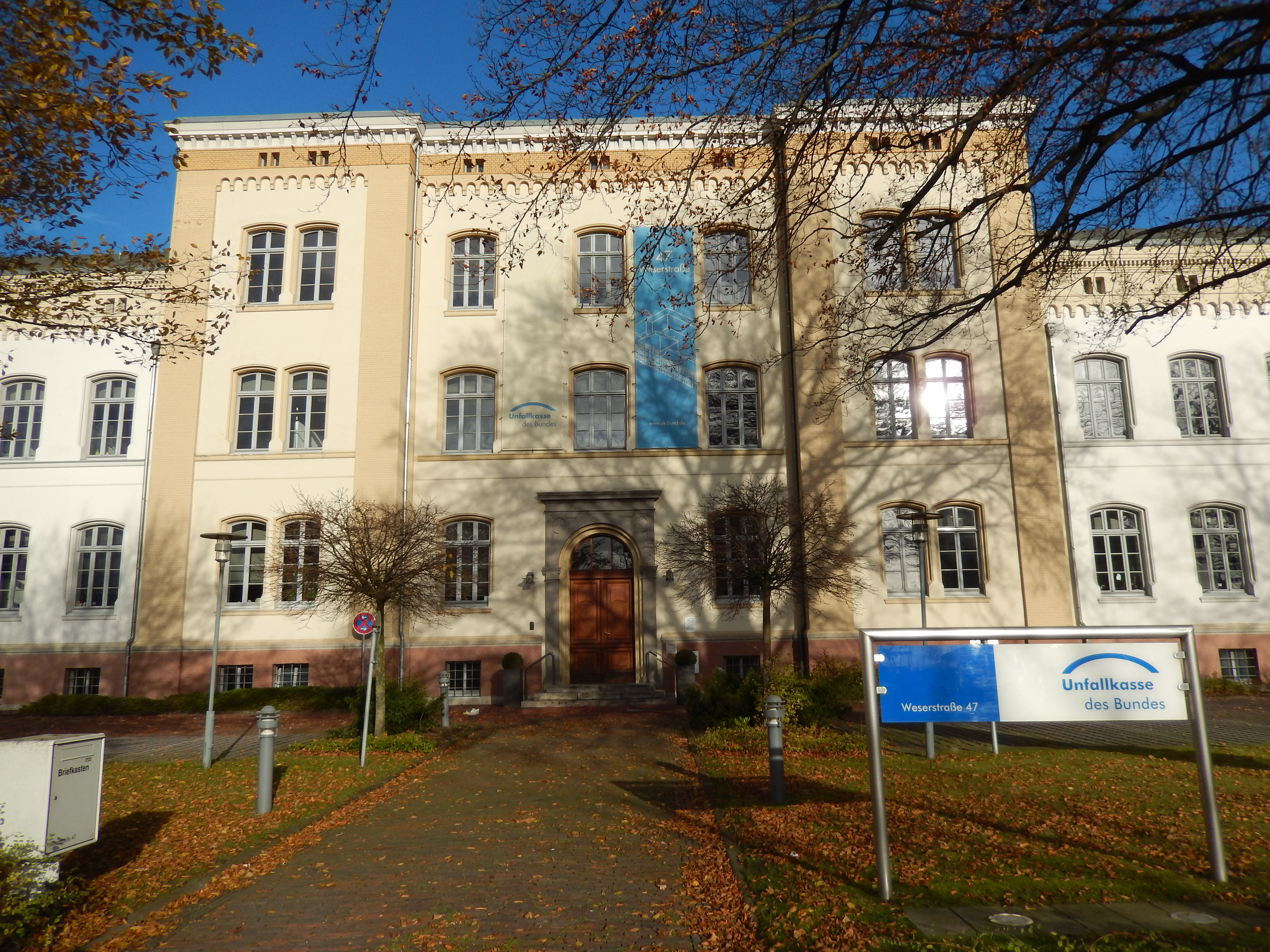 German federal accident insurance building in Wilhelmshaven, Germany.